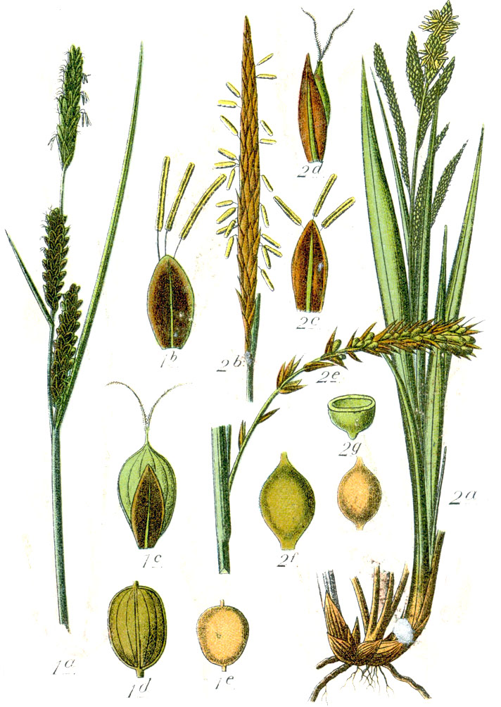 1. arctos.database.museum: Carex acutiformis Ehrh., syn. Carex dubia Missbach & E.H.L.Krause, Still unknown 2. Carex acuta L. Original Caption 1. Zweifelhafte Segge, Carex dubia turfosa 2. Scharfe Segge, C. acuta